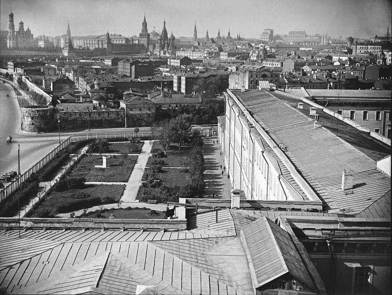 Kitai-gorod wall, Kosmodemyansky Gates and Naugolnaya (Angel) Tower in Zaryadye